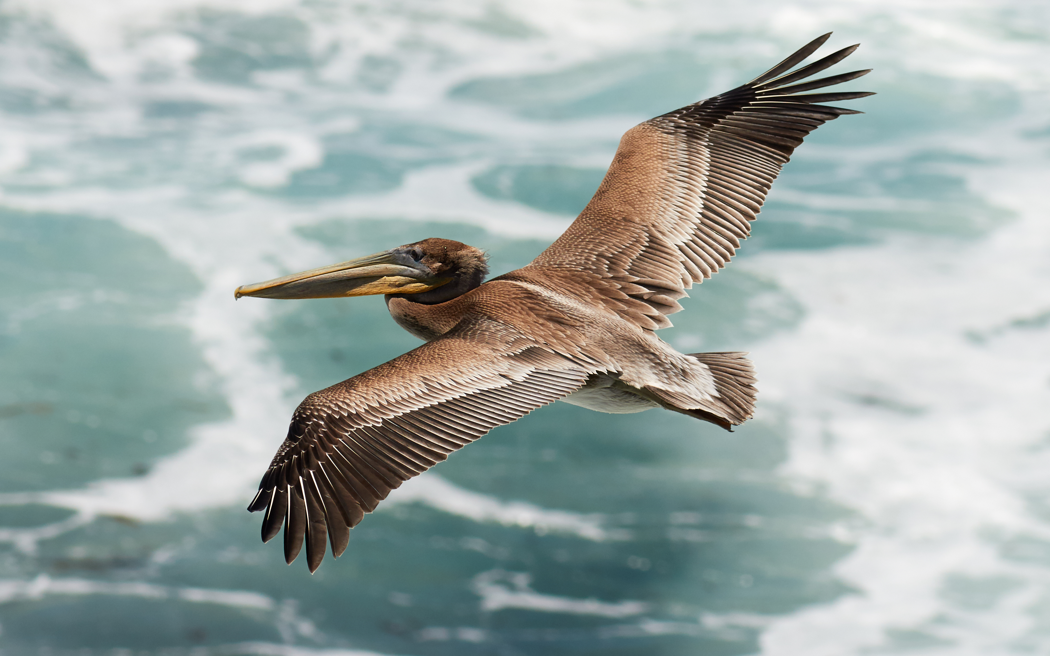 Juvenile brown pelican (Pelecanus occidentalis californicus) gliding above the waves of the Pacific Ocean at Bodega Head, California